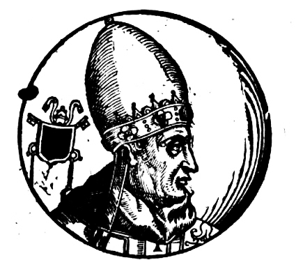 Benedict IV, drawn extracted by Bartolomeo Sacchi said Platina, Vite De' Pontefici, edited by di Onofrio Panvinio, per i tipografi Turrini, e Brigonci, Venice 1663